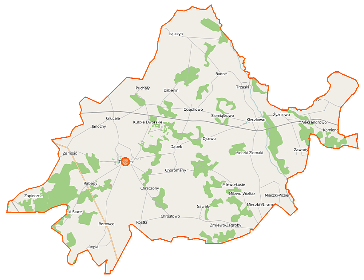 Map of Gmina Troszyn, Poland This map of Troszyn (gmina) was created from OpenStreetMap project data, collected by the community. This map may be incomplete, and may contain errors. Don't rely solely on it for navigation. Border coordinates53.117721.6204←↕→21.945252.9673